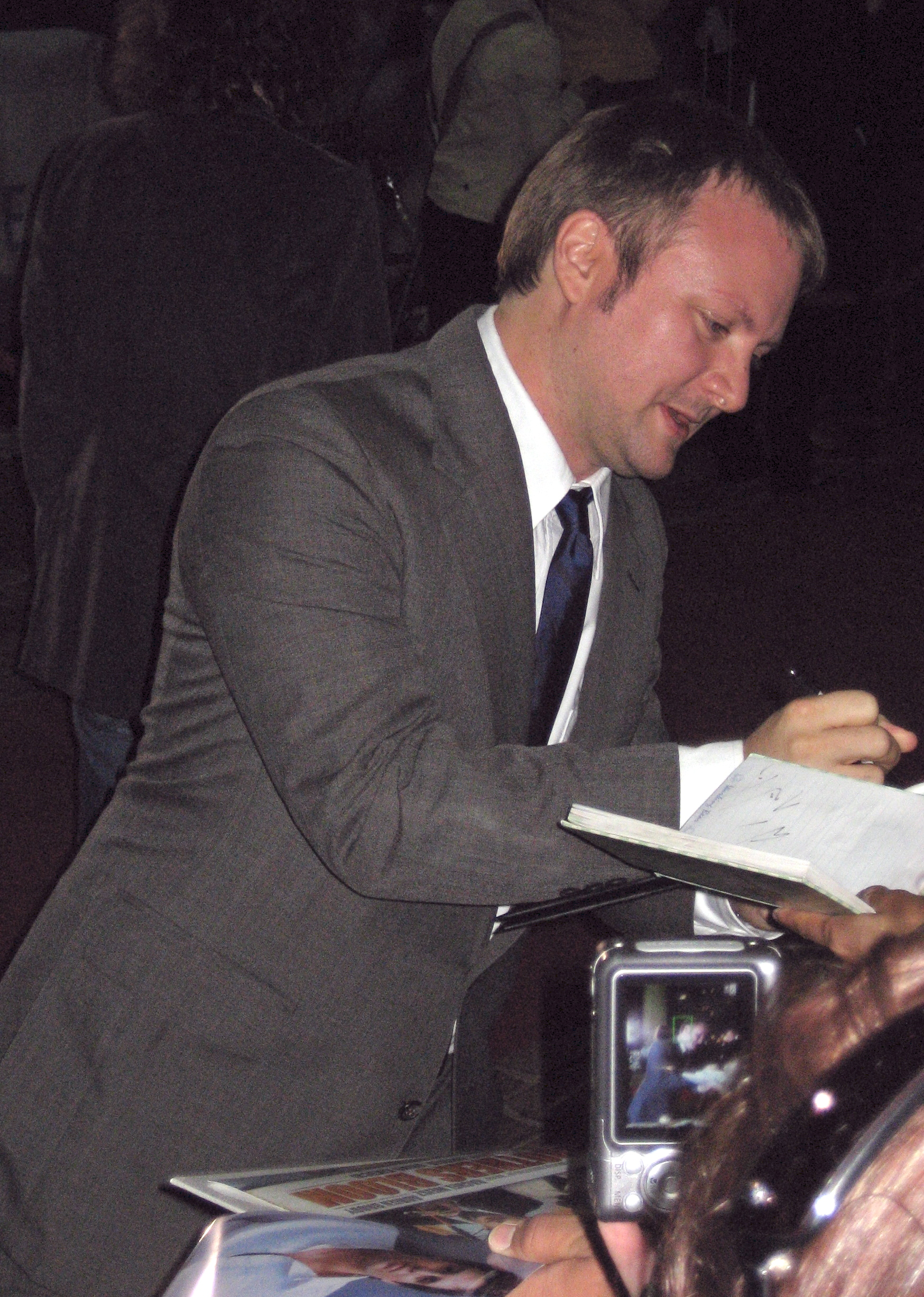 Rian Johnson at the premiere of The Brothers Bloom, Toronto Film Festival 2008. He's directing Looper. The 2012 fall big budget with Joseph Gordon Levitt, Bruce Willis and Emily Blunt